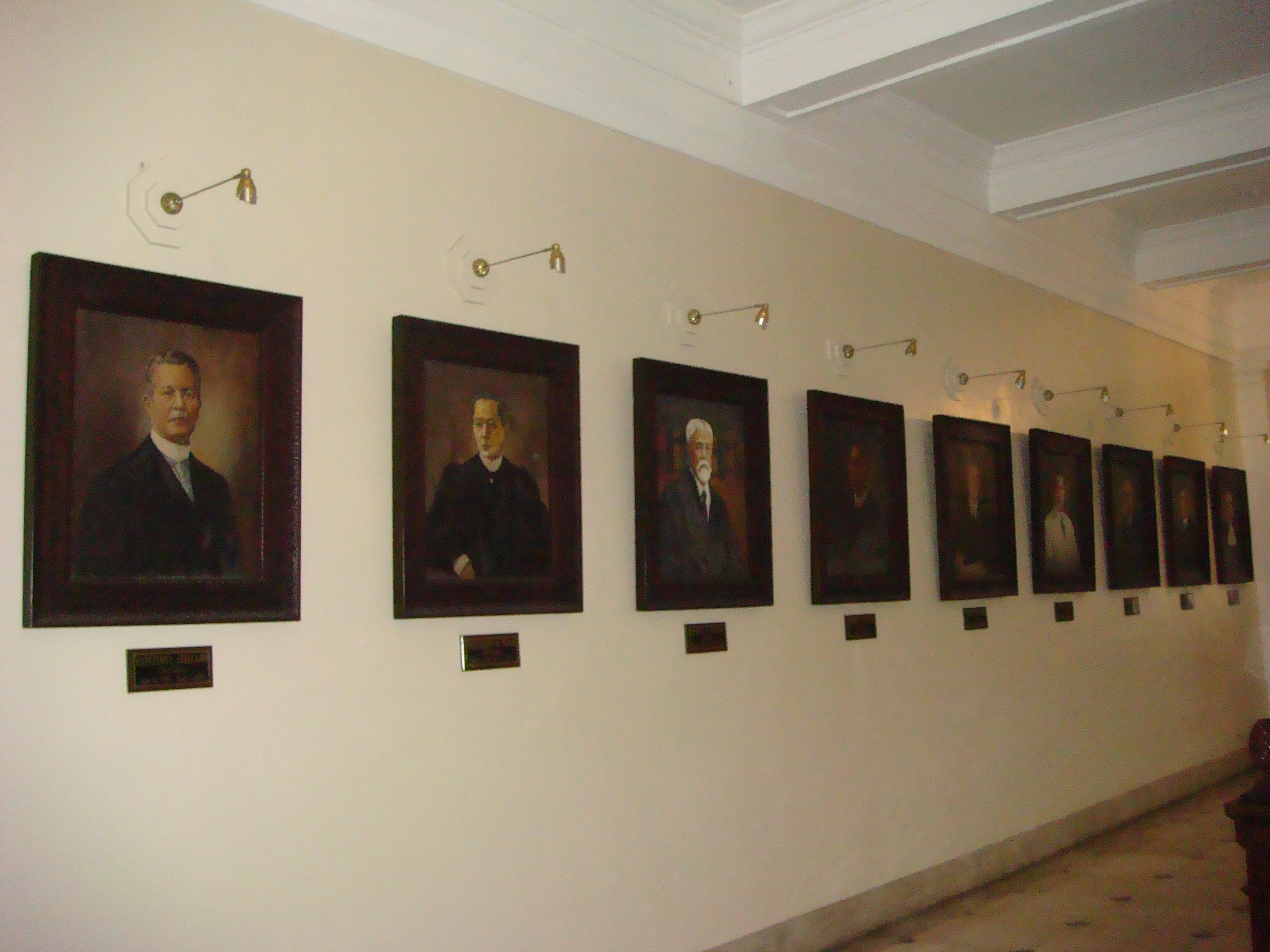 Official portraits of SC of the Philippines Justices in the new SC building